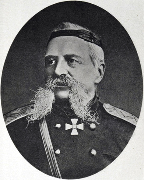 Baggovut, Aleksandr Fyodorovich.